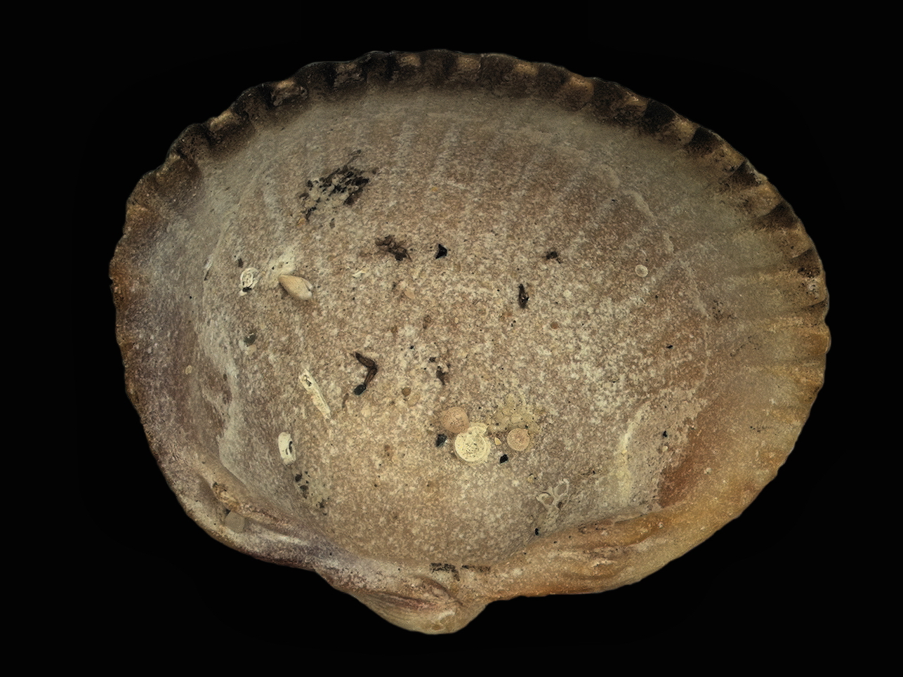 Articulate brachiopod and small arc shell in situ in a worn out cockle shell, collected from the Belgian part of the North Sea. Studio image.